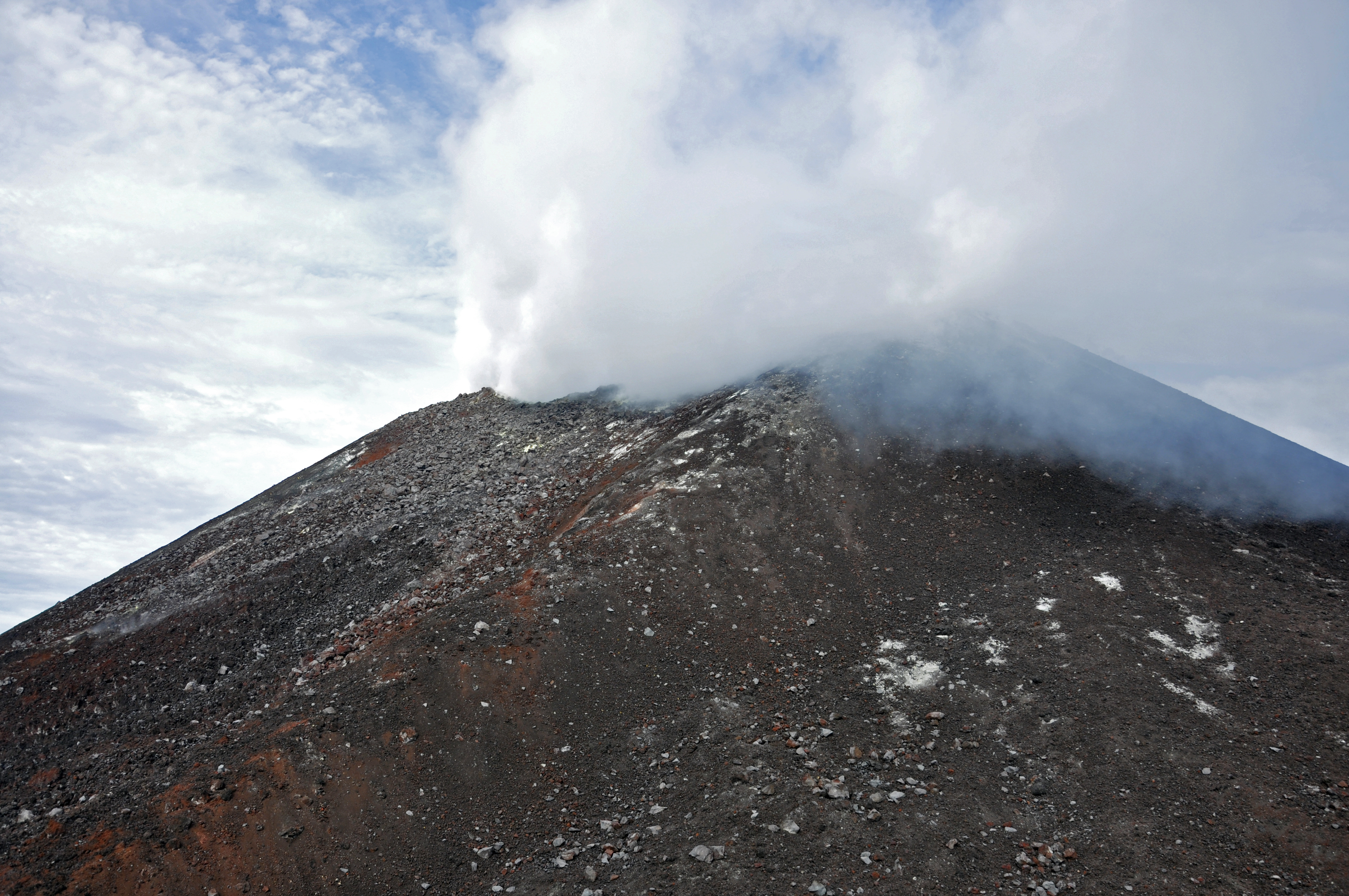 Anak Krakatau, janauary 2016